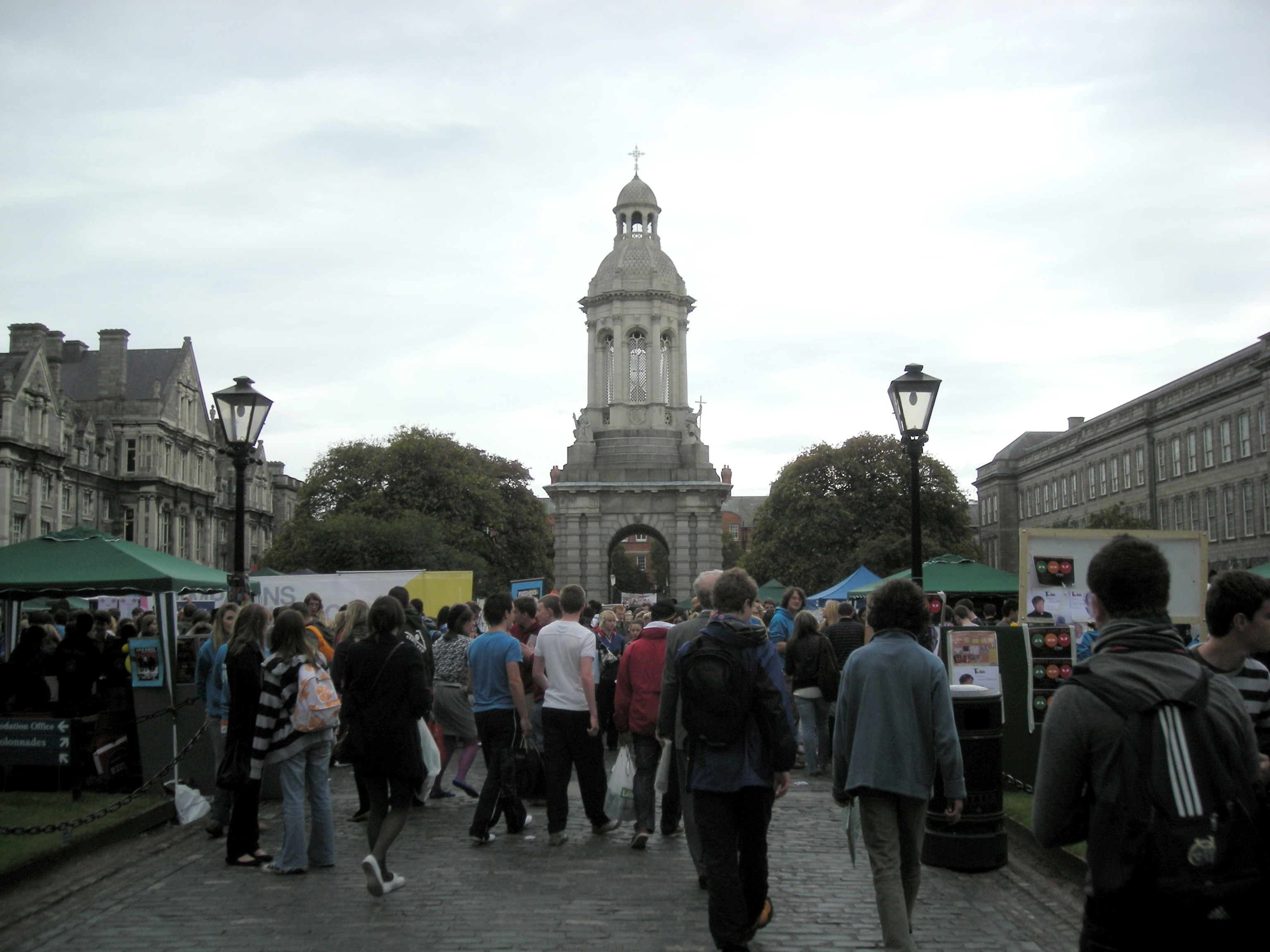 Picture of the stands of different societies at Freshers Week at Trinity College Dublin